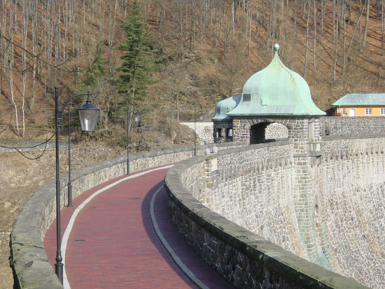 Janov dam in the Czech Republic, near Litvínov.